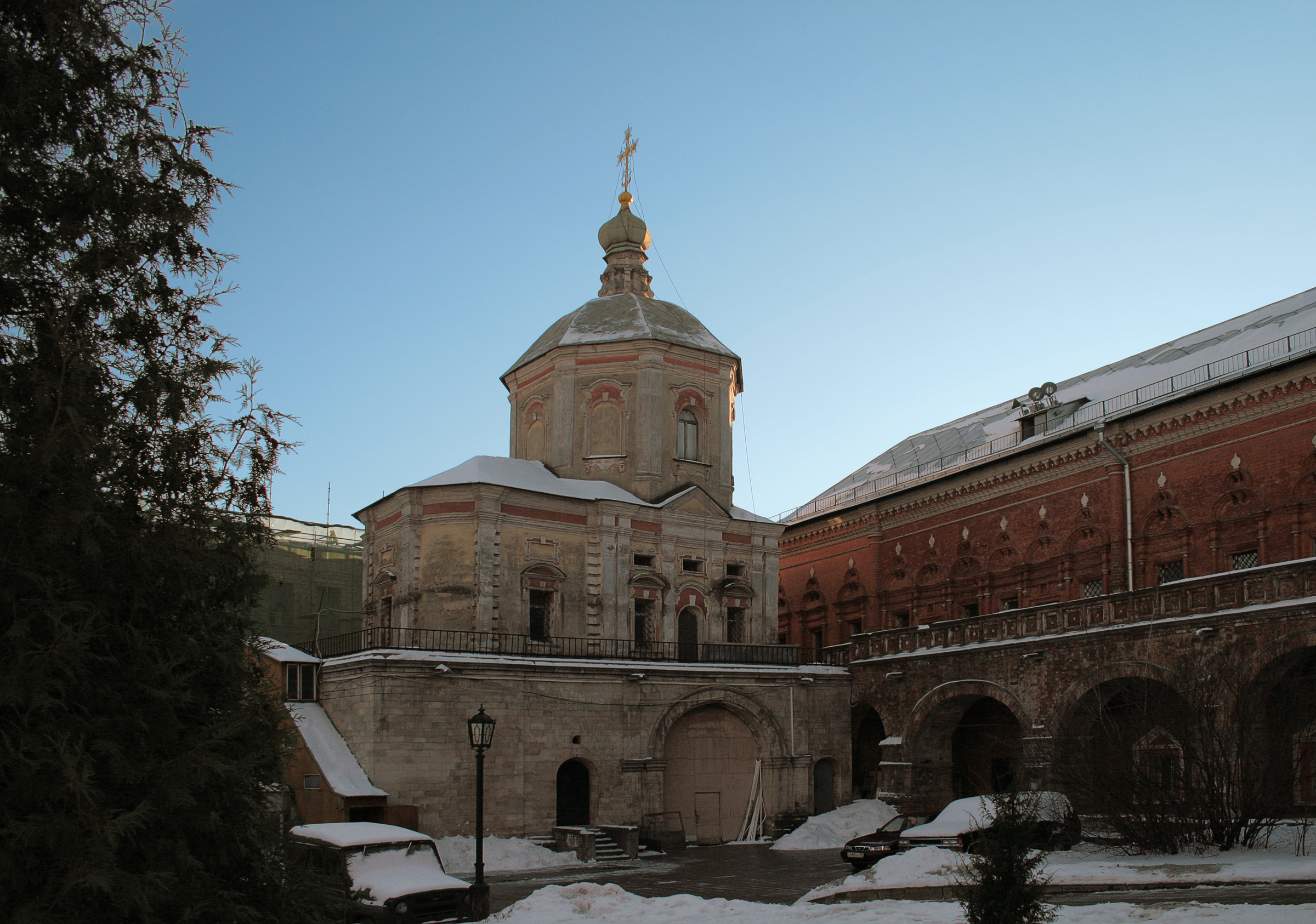 Vysokopetrovsky Monastery, Pachomius the Great, 1755